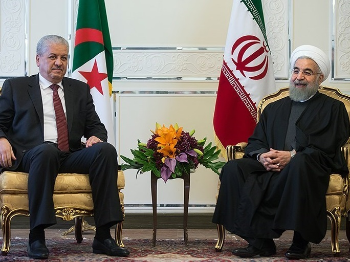 President Hassan Rouhani meeting with Algerian Prime Minister Abdelmalek Sellal in Saadabad Palace